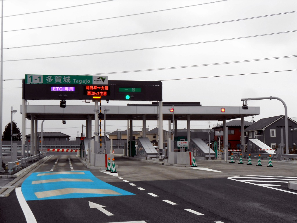 entrance of Tagajo interchange (Sanriku expressway)